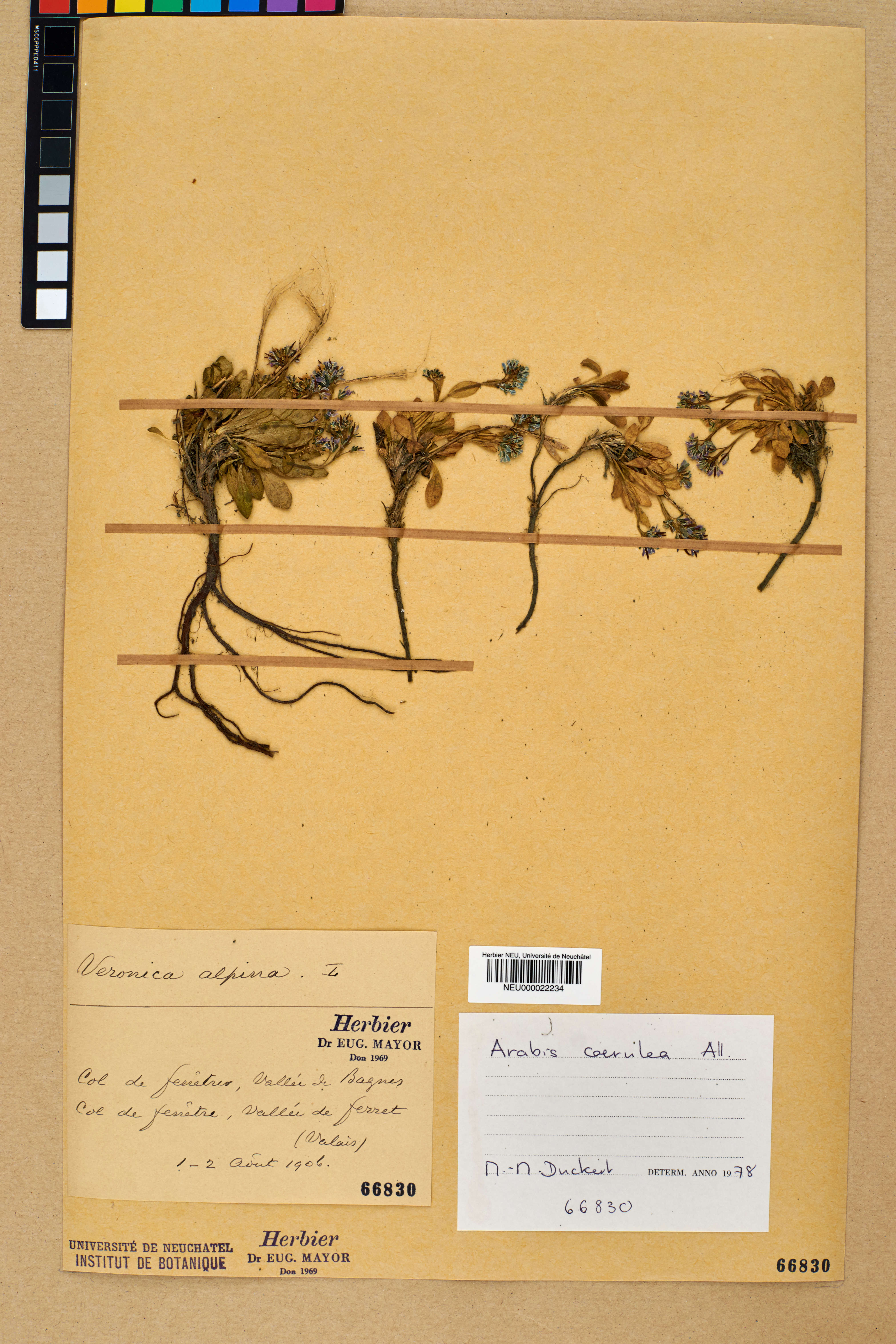 Dried pressed specimen of Arabis caerulea